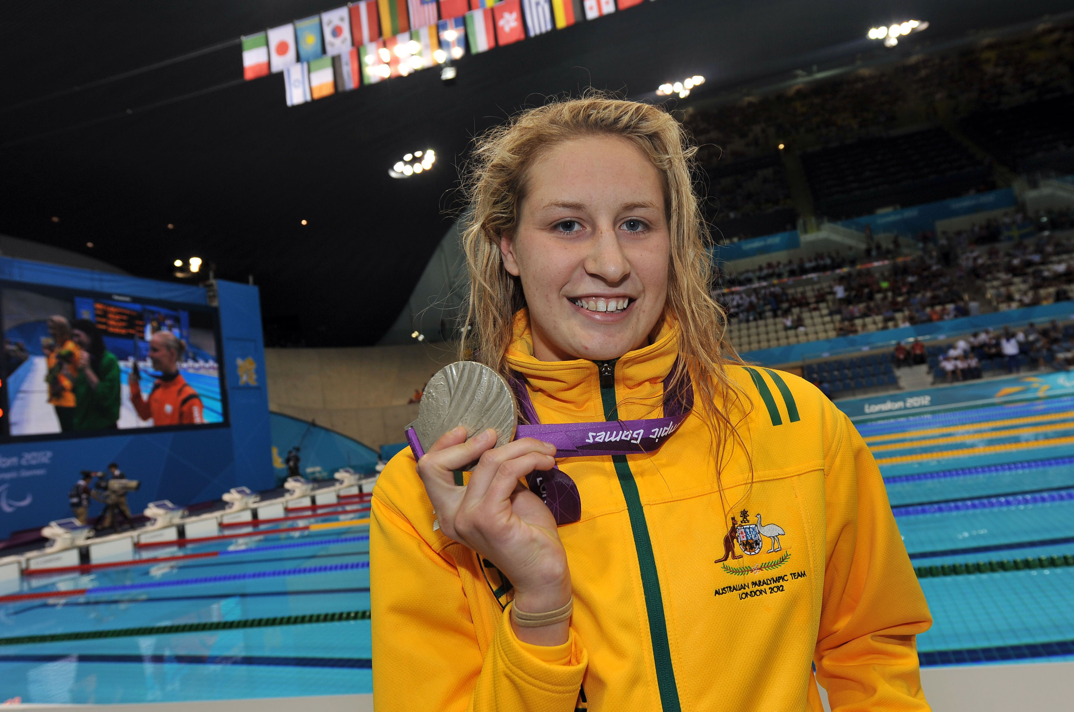 Photograph of Australian Paralympic team member Taylor Corry at the 2012 Summer Paralympic Games in London